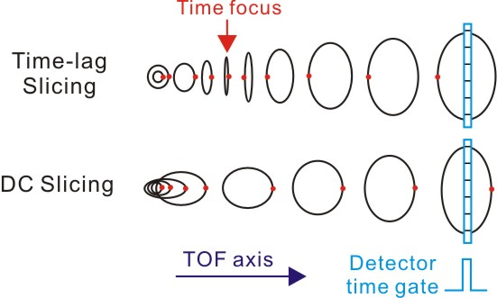 Ion packet evolution and 2D time-sliced ion imaging